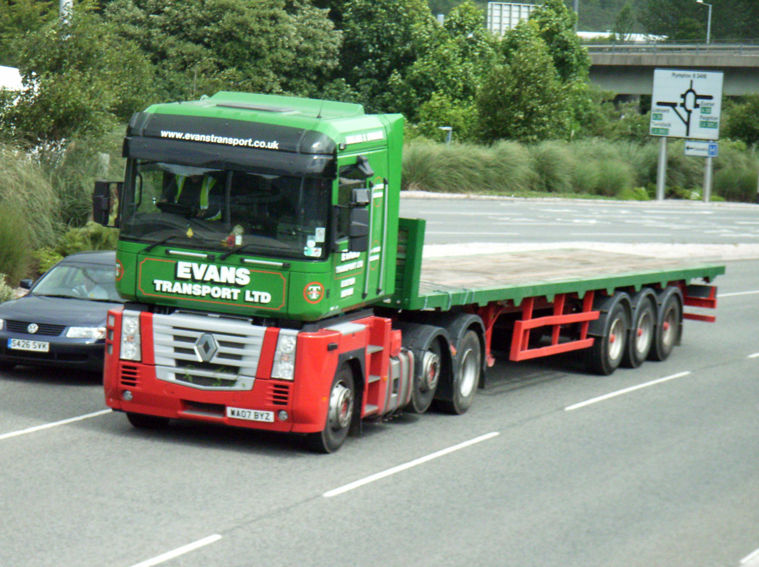 Marsh Mills Plymouth 25 June 2008